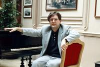 Marco Betta is an Italian classical composer. He writes music for ballets, operas, string orchestra, chamber orchestra, theatre, cinema and television.